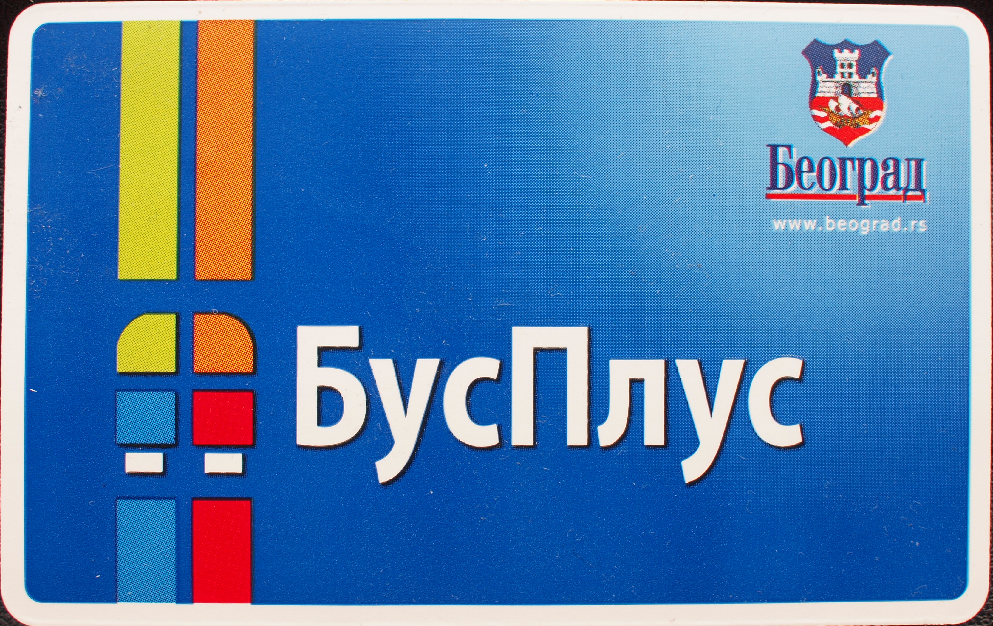 Bus plus chipcard 1